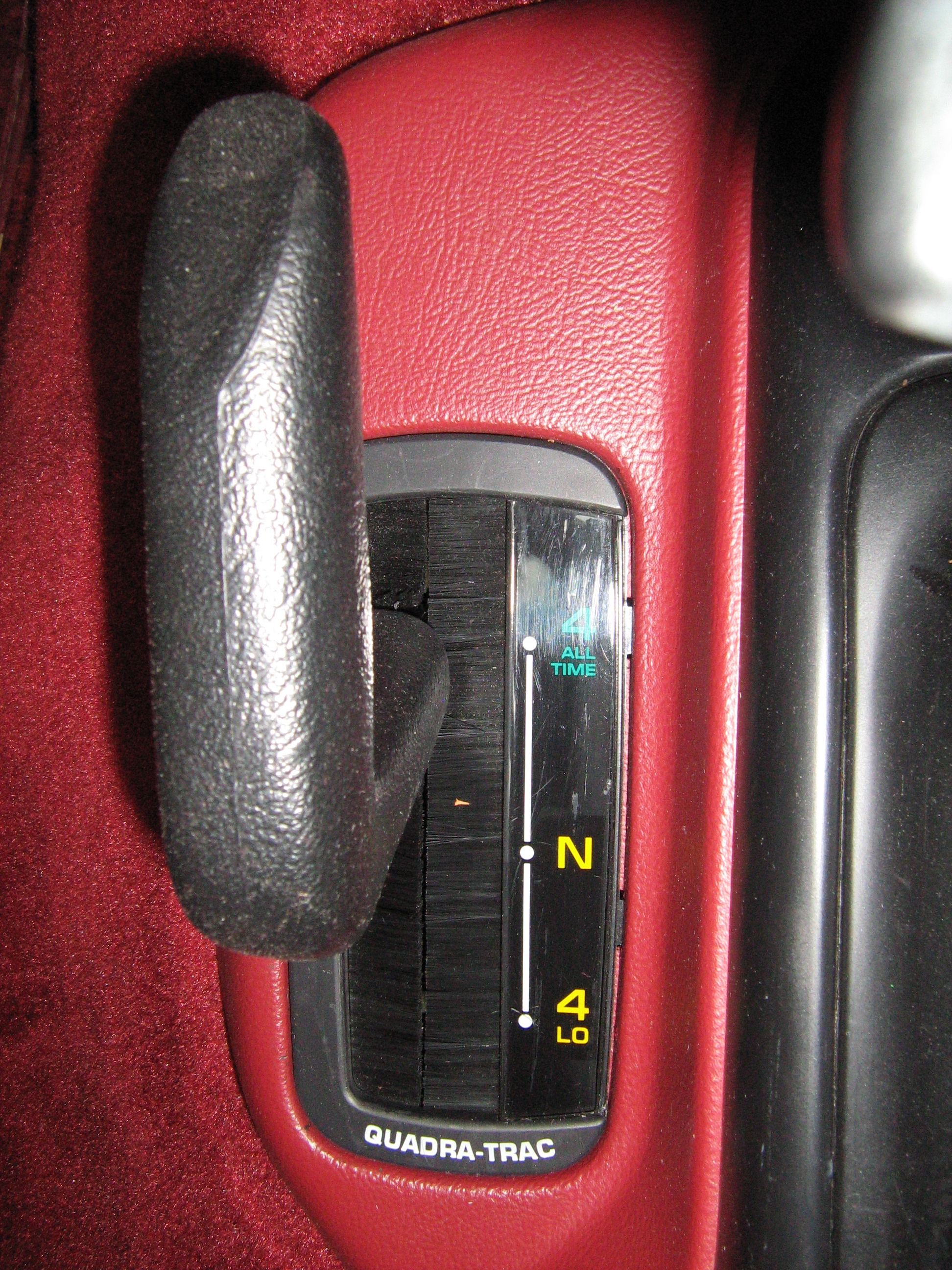 The selector lever for the Quadra-Trac full-time (permanent) all-time four-wheel drive (4WD) system in a 1993 Jeep Grand Cherokee (model ZJ). This luxurious sport utility (SUV) is finished in Metallic Blackberry (paint code: PM9), a deep burgundy. Equipment includes the Laredo 26F package and the Quadra-Trac full-time system. This is an early production ZJ model that was built in April 1992. The interior is in matching Crimson with cloth upholstery, that was only available at the start of the ZJ's production.